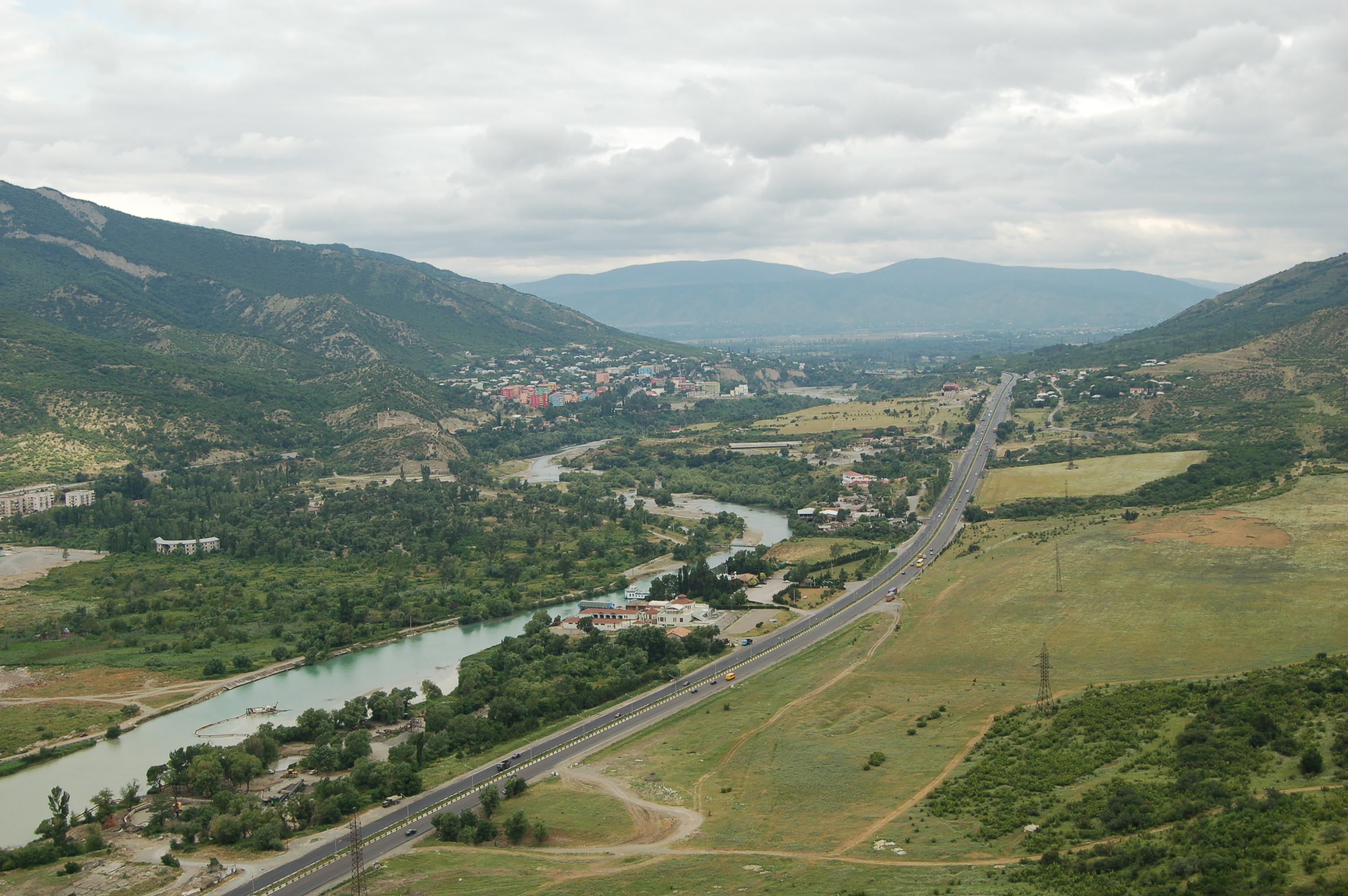 View upstream Aragvi River and along Tbilisi–Senaki–Leselidze highway. Photo taken from around Jvari monastery